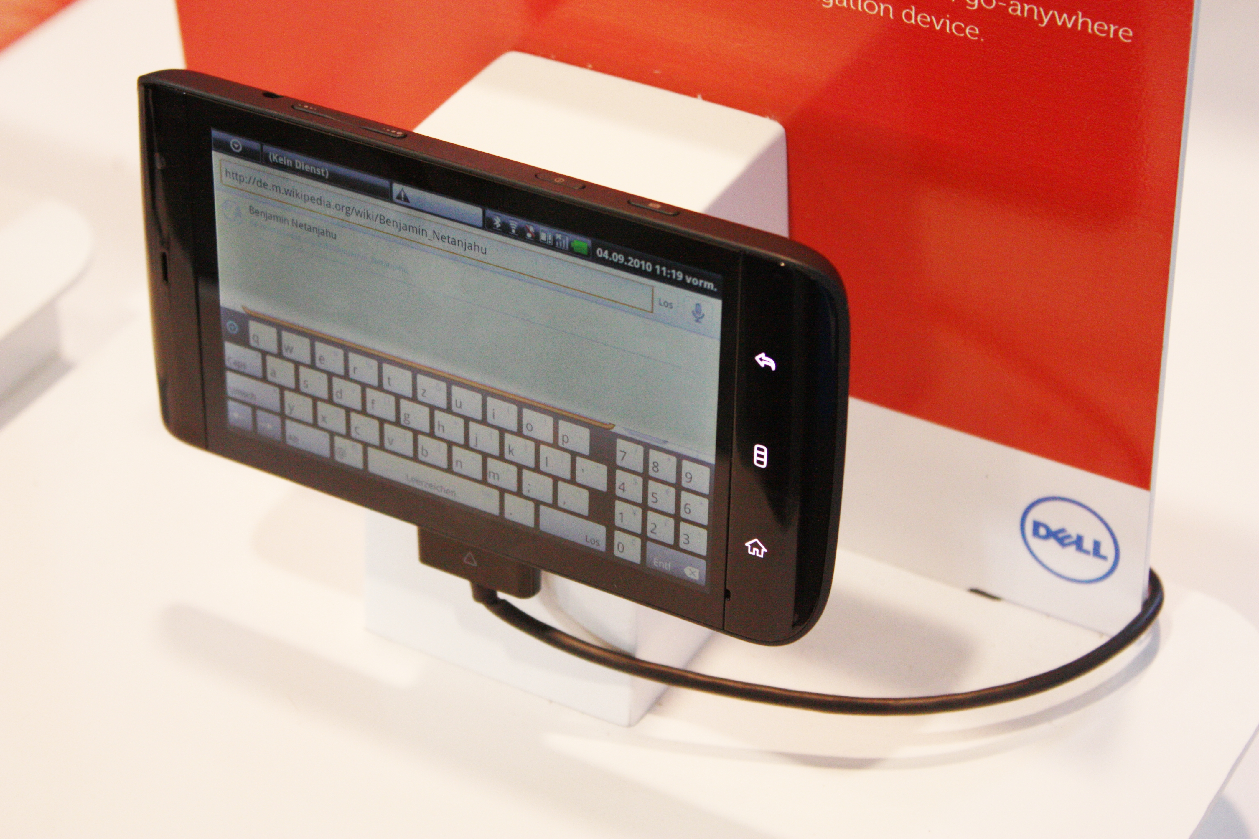 Dell Mini 5 in Berlin